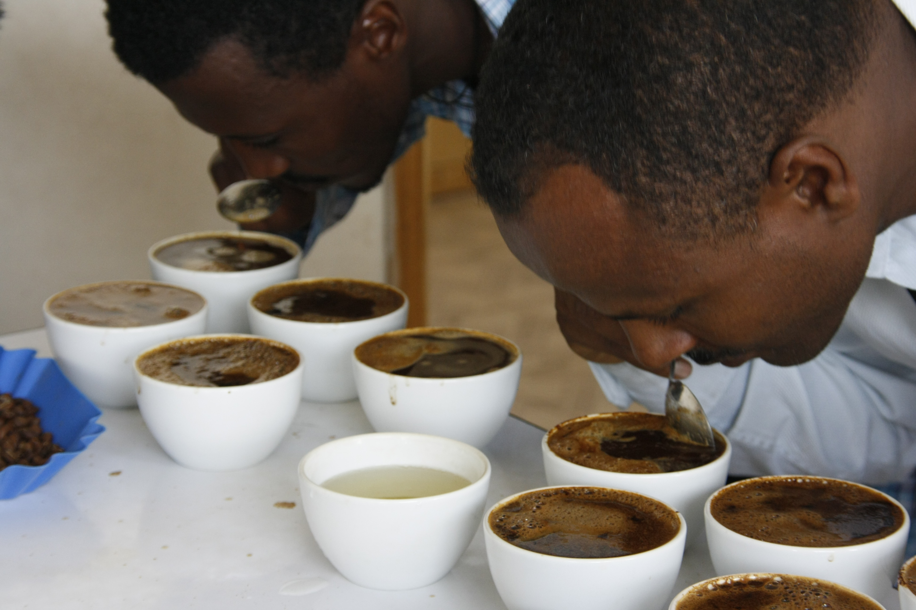 'Cuppers' – the industry term for coffee tasters - score the coffee grounds according to the quality of the aroma. The cuppers are all certified to international standards, and test up to 70 coffee samples a day in peak season. All three cuppers must agree on the score out of 100. If they disagree, the chief cupper is brought in to adjudicate. The rigorous testing regime has helped to improve the quality of coffee produced in Ethiopia – as farmers receive constant feedback on their product. In the first year of the Ethiopia Commodity Exchange, the volume of top quality coffee traded tripled. DFID supported two leading research institutes who were tasked with finding a solution to Ethiopia's inefficient food and commodity markets. The UK aid funded research recommended setting up a commodity exchange and helped to design the warehousing, logistics and payment systems that the exchange uses today. The exchange helps to boost exports and secure a better deal for farmers and consumers. Photo: Pete Lewis/Department for International Development